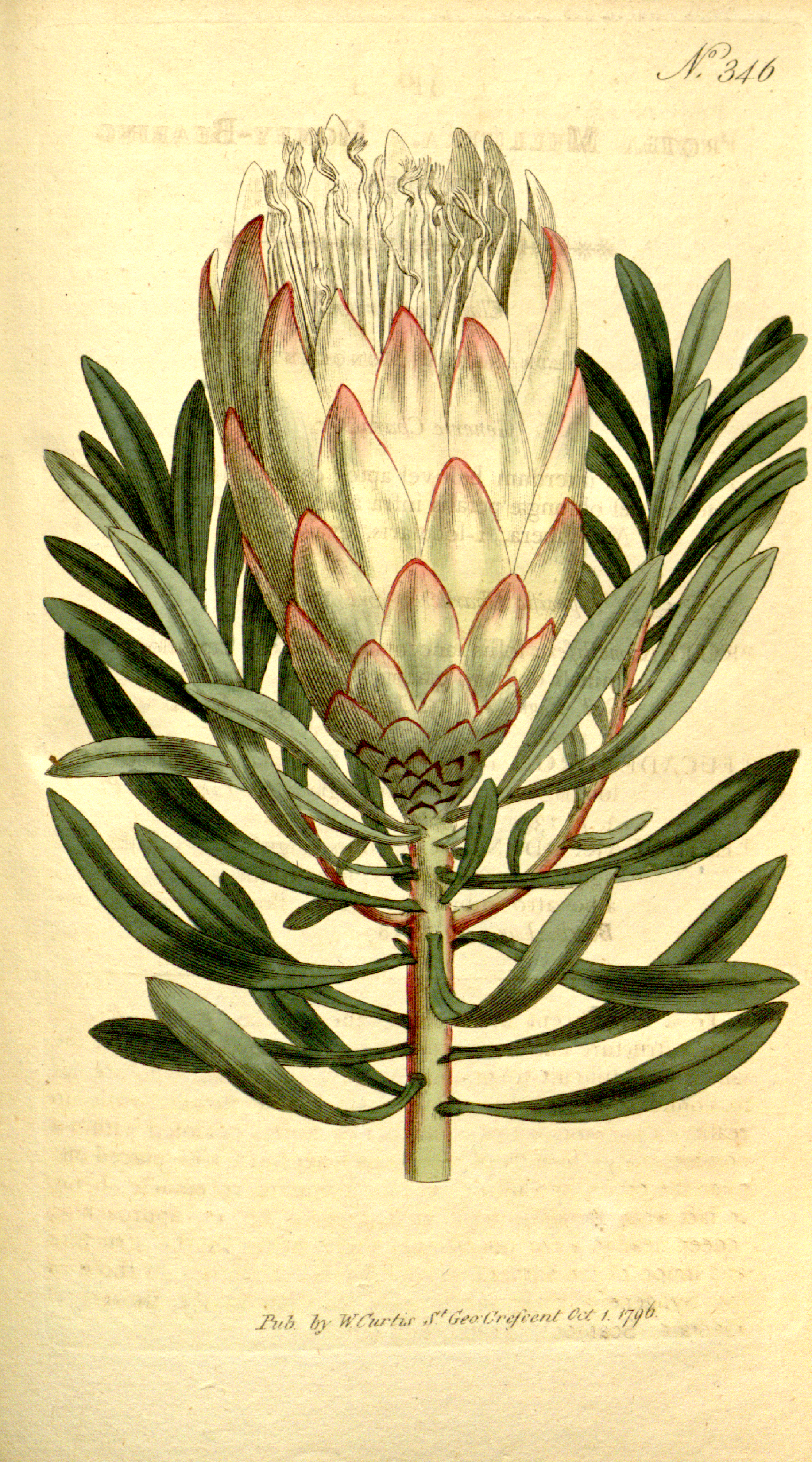 This is a plate from The Botanical Magazine, Volume 10.